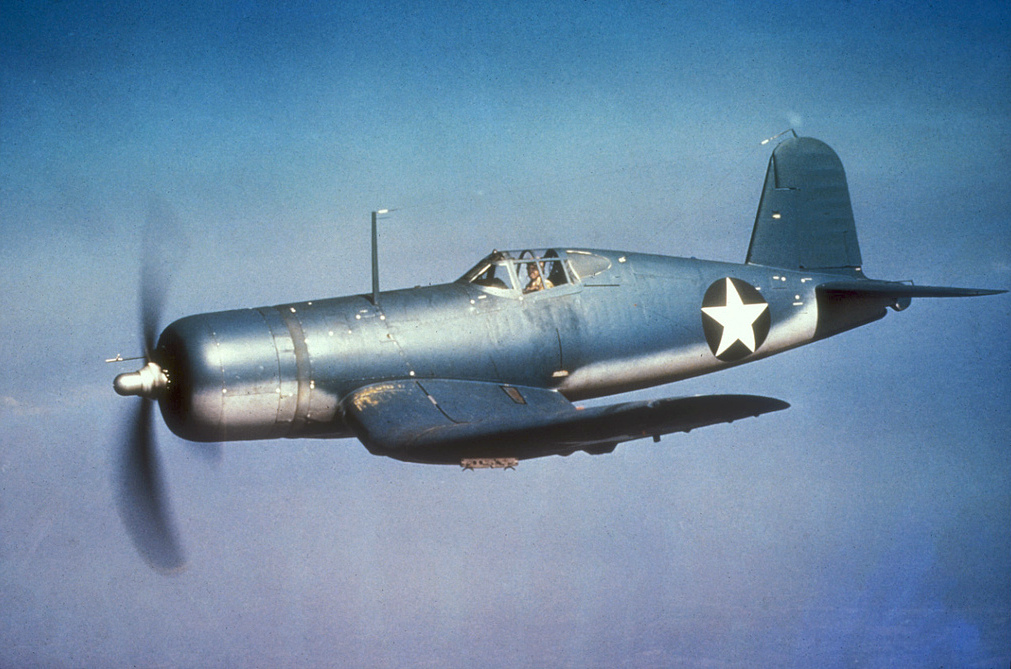 A U.S. Navy Vought F4U-1 Corsair fighter in flight, circa 1942.